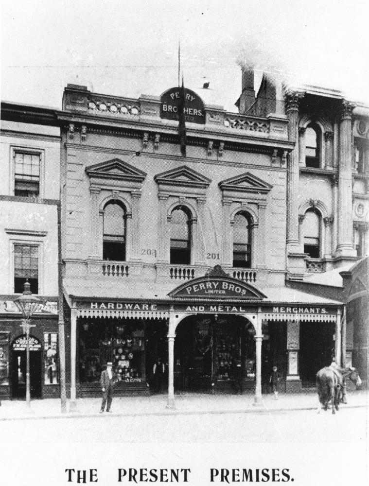 Perry Brothers Ltd. in 1906. Perry Brothers second store built in 1865 by John Petrie and designed by J. Cowlinshaw. The buiness moved into this building form their original premises right next door, visible at the left of the this photograph. (Description supplied with photograph.).